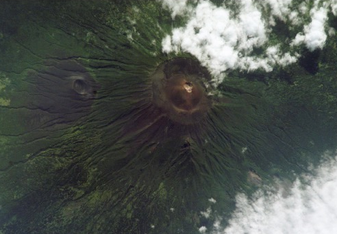 NASA picture of Kunashir Island